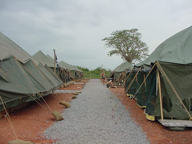 A "tent city" erected for a U.S. military exercise